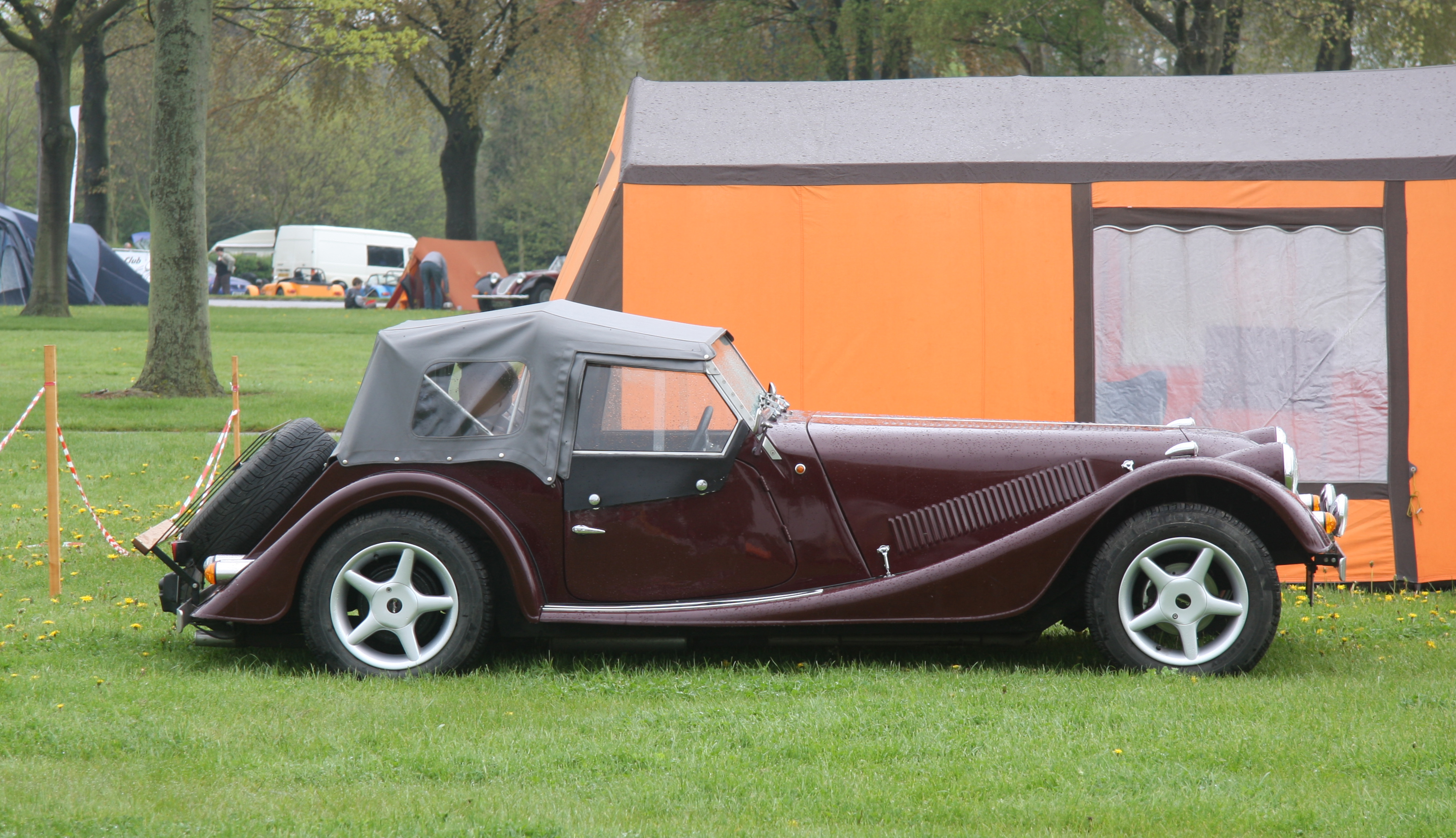 Hawke Owners' Club area